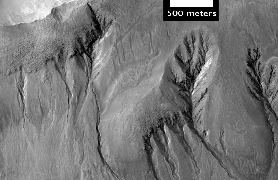 Branched gullies, as seen by hirise. Location is 38.9 S and 195.9 E.